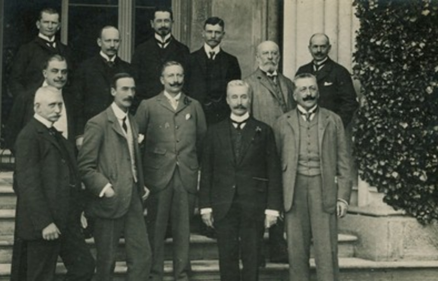 Kaiser Wilheim II (centre) at Highcliffe Castle in 1907